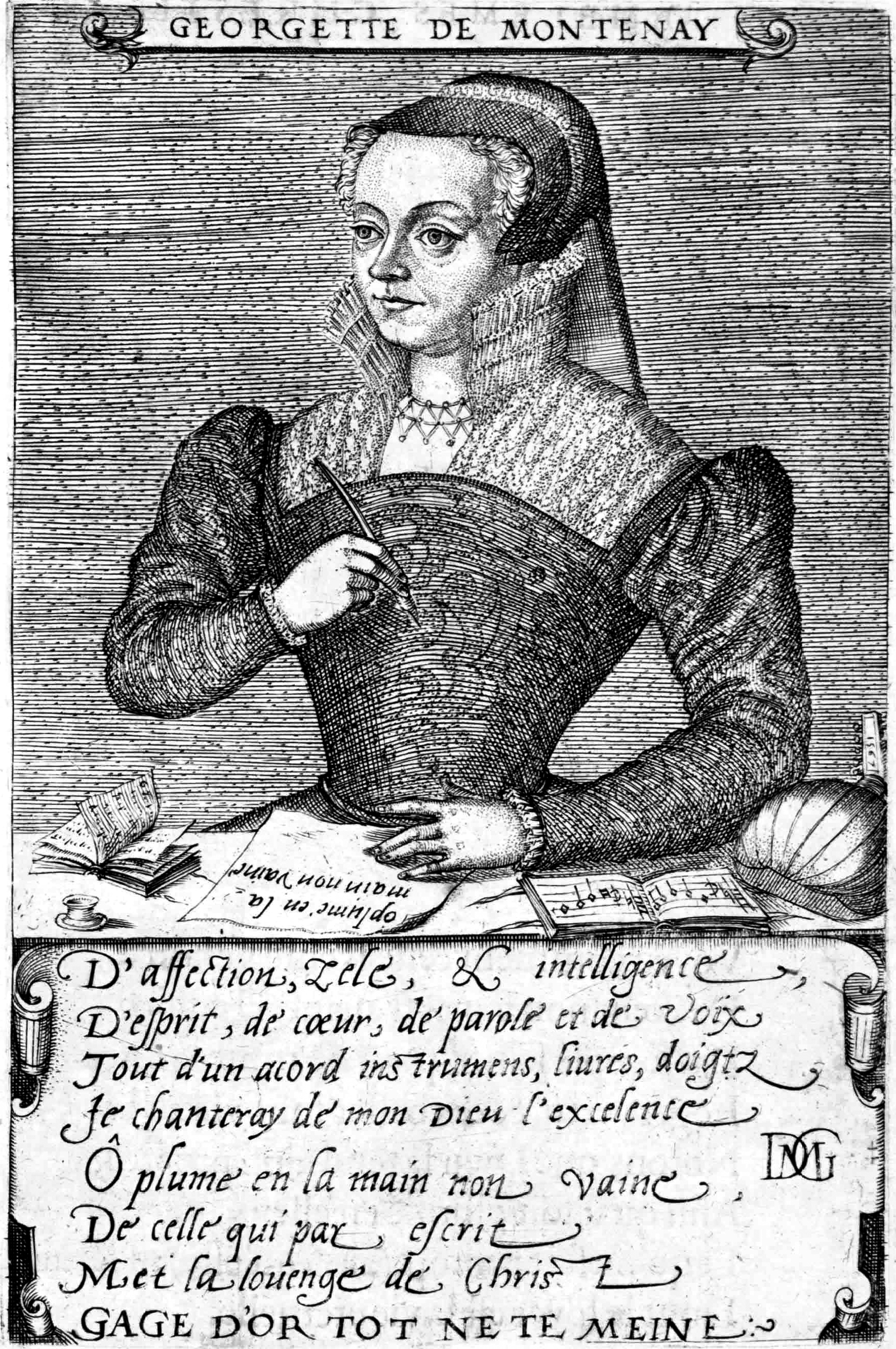 Engraving of Georgette de Montenay (1540 – ca. 1581), French author of "Emblemes ou devises chrestiennes", illustrated by Pierre Woeiriot